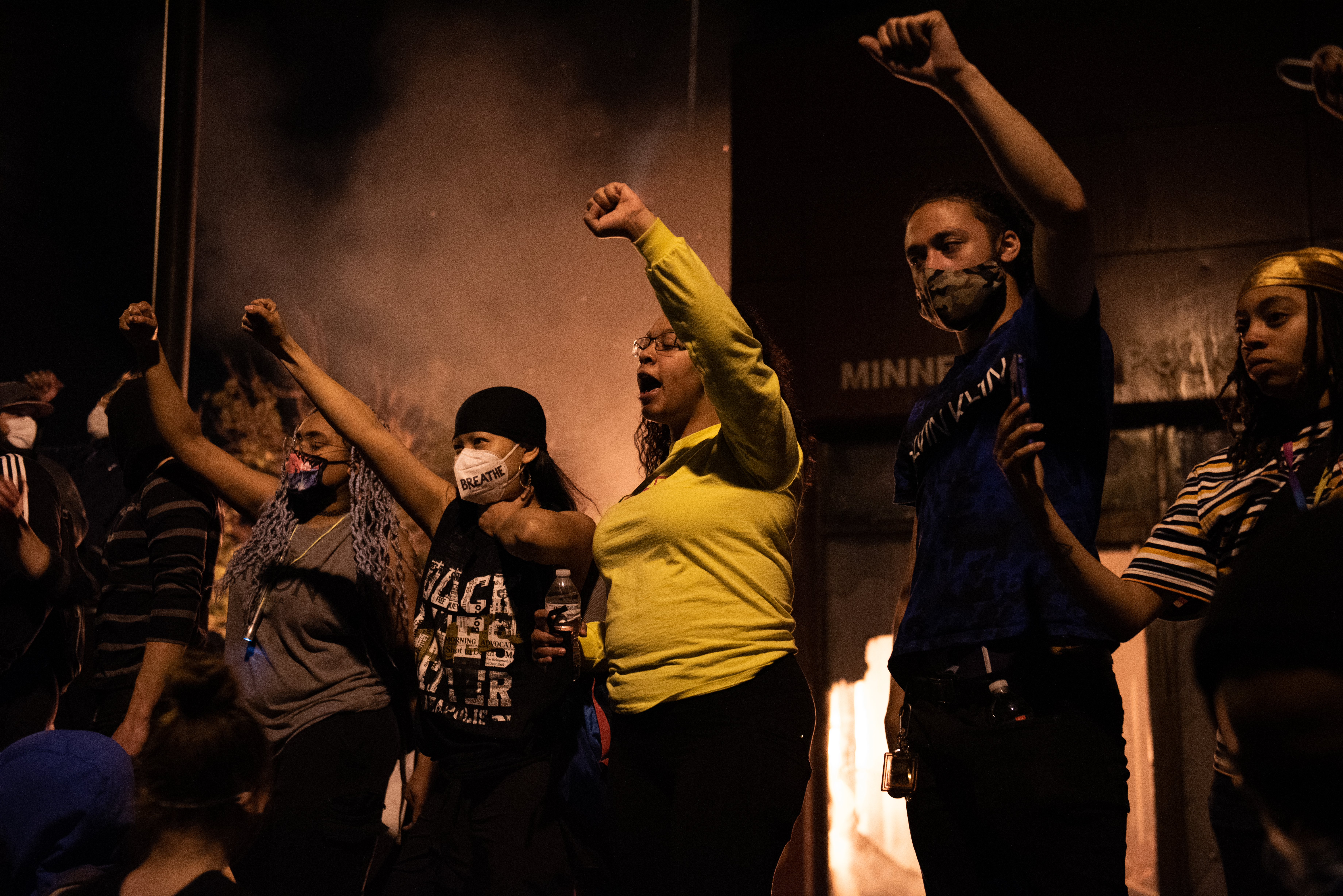 Protesters with fists raised gathered outside the burning Minneapolis 3rd Police Precinct on the evening of May 28, 2020.